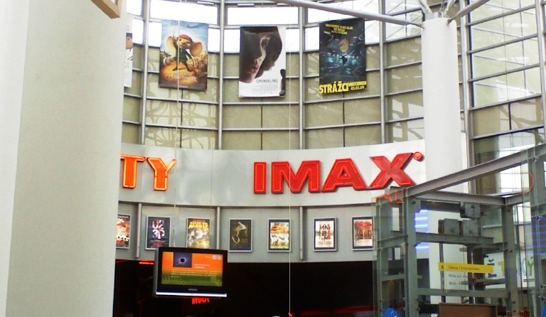 Entrance to Imax Theatre in Prague, The Czech Republic